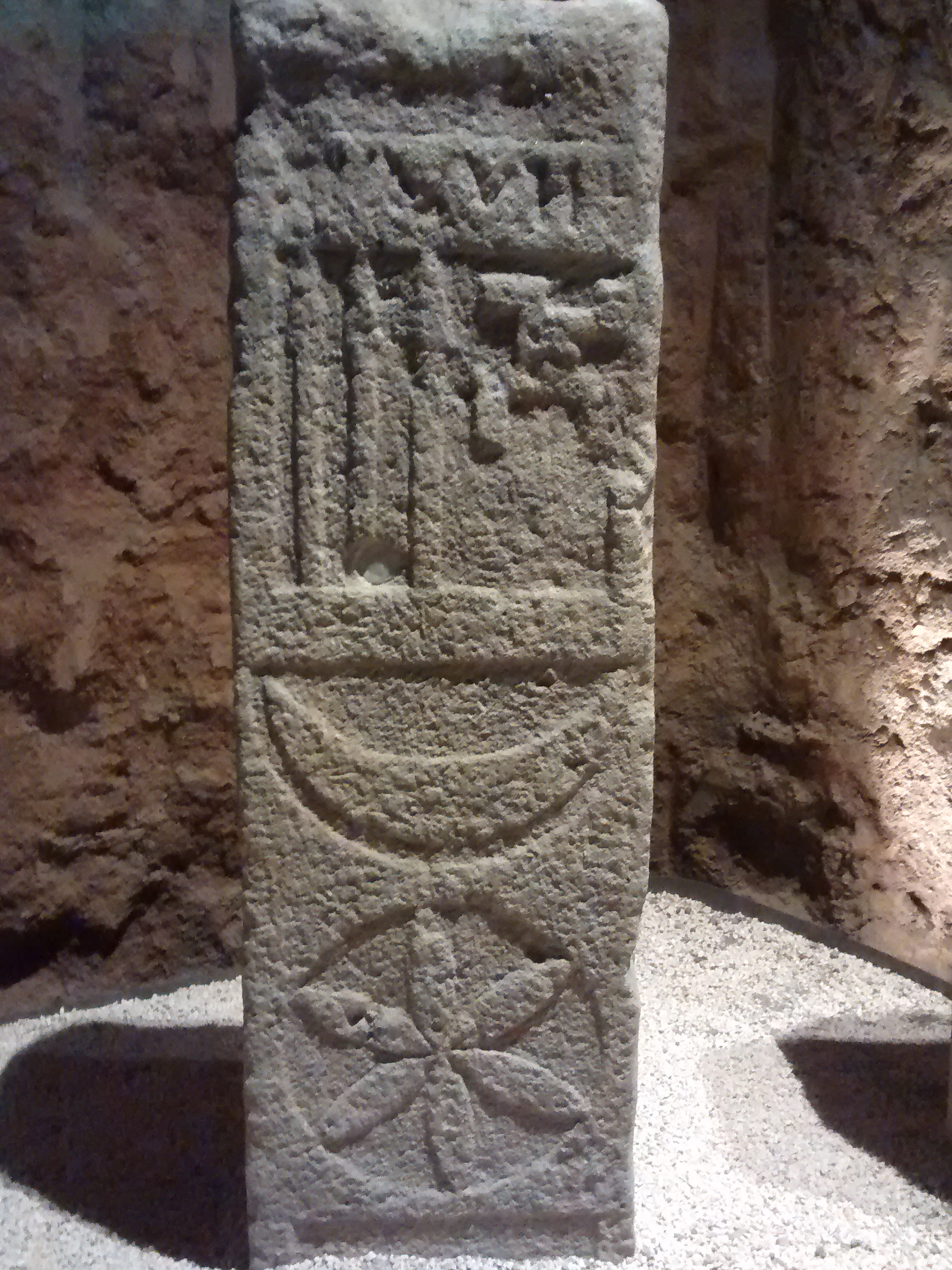 Iberian stele of Can Peixau at Badalona Museum